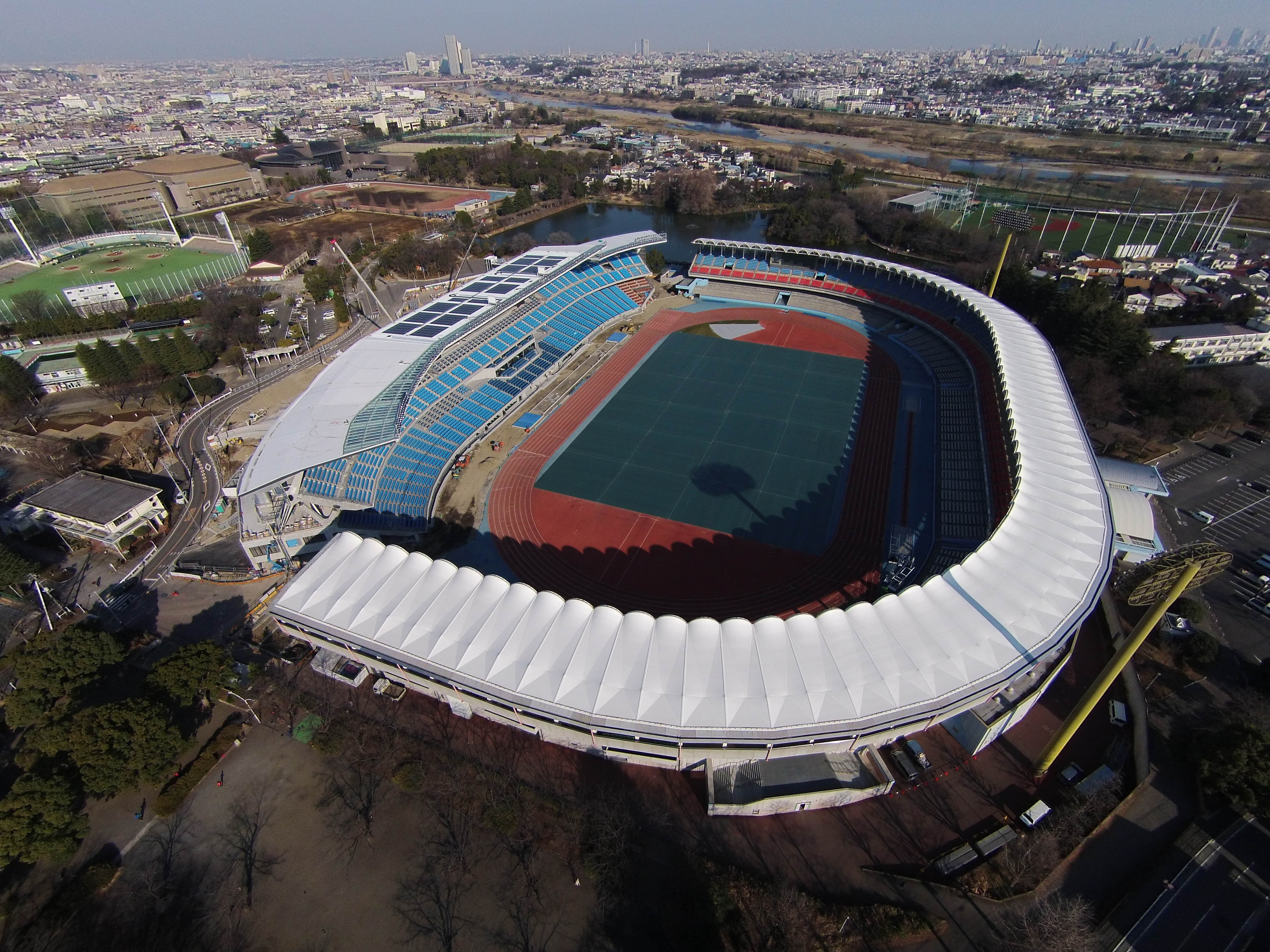 Todoroki Athletics Stadium ( Kawasaki, Japan )